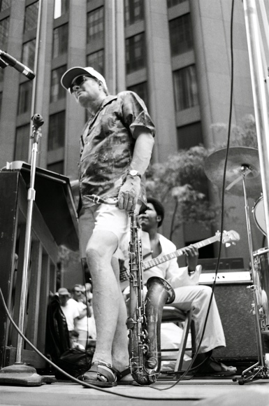 Zoot Sims / Jimmy Rowles Quartet July 6th, 1976 Zoot Sims, Jimmy Rowles, Bob Cranshaw and Mousey Alexander.